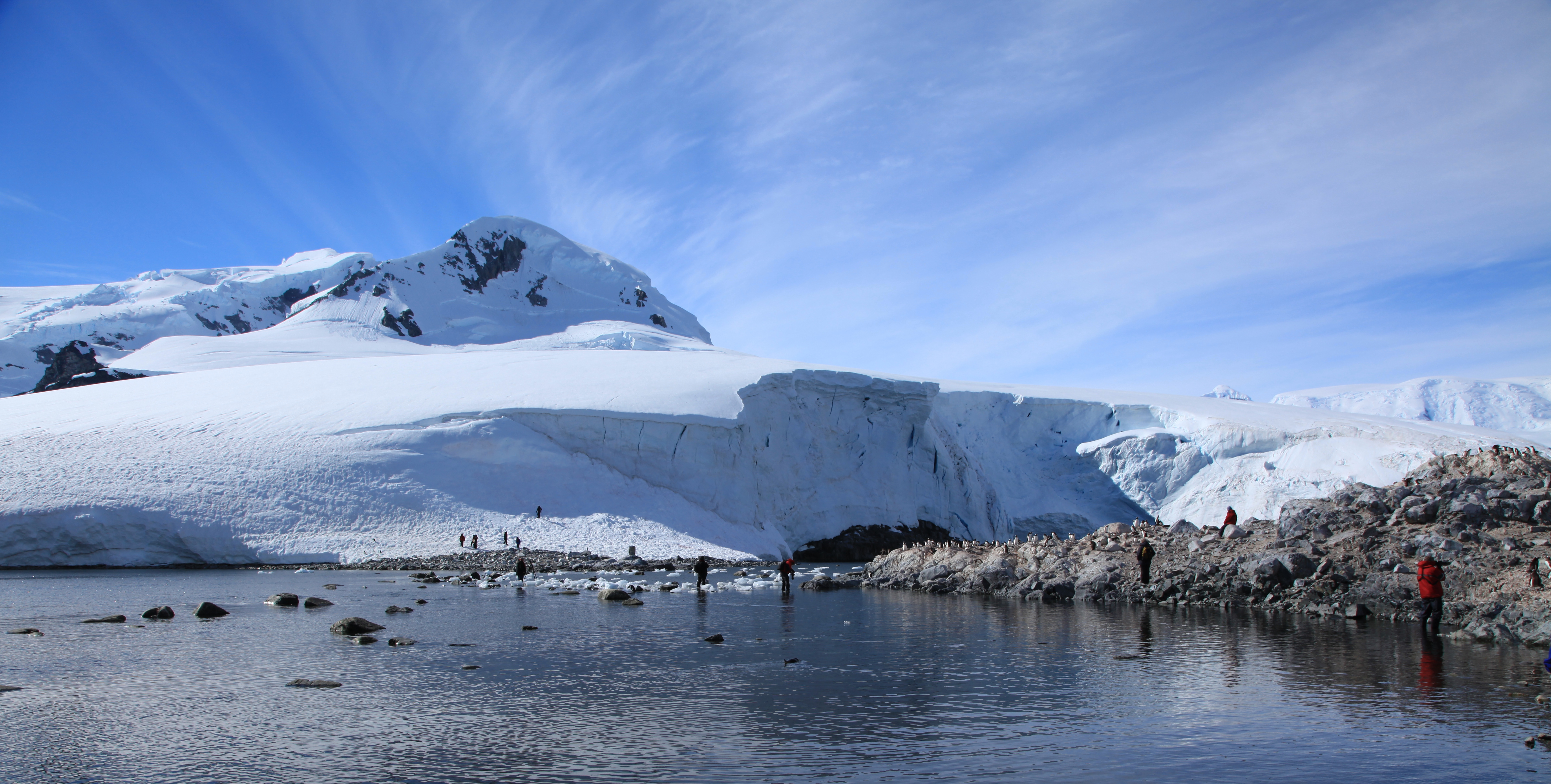 Waterboat Point is connected by land to the Antarctic Peninsula only at low tide. Promised a continental landing, some of these tourists were confused by the water separating them from the Antarctic Peninsula. So they walked through the water to avoid any doubt. Others were content to observe and photograph the Gentoo Penguins.